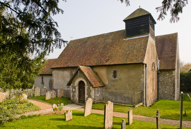 All Saints' Church, Compton Street. See also 396974.